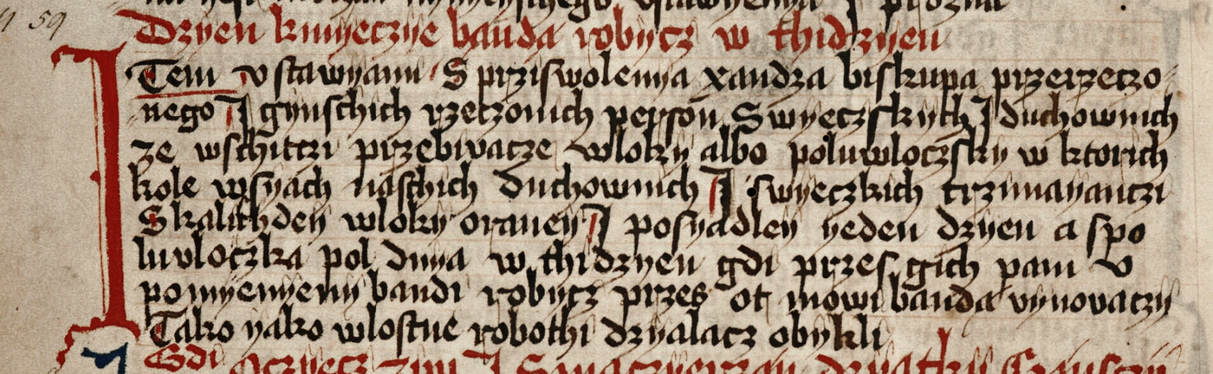 Part of Statute of Warsaw 1421 in Kodeks Świętoszława z Wojcieszyna